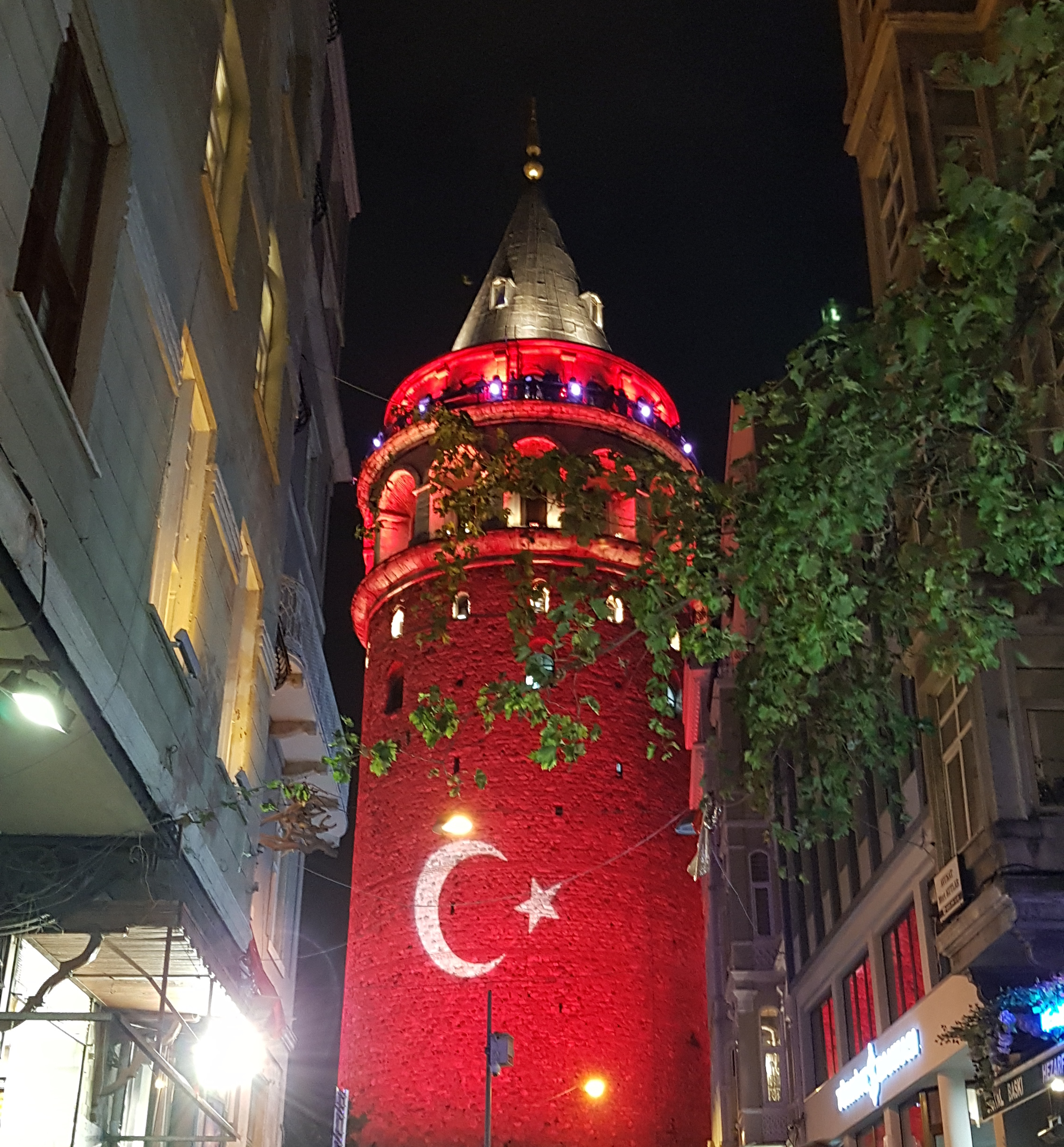 Galata Tower with Turkey flag 20191028